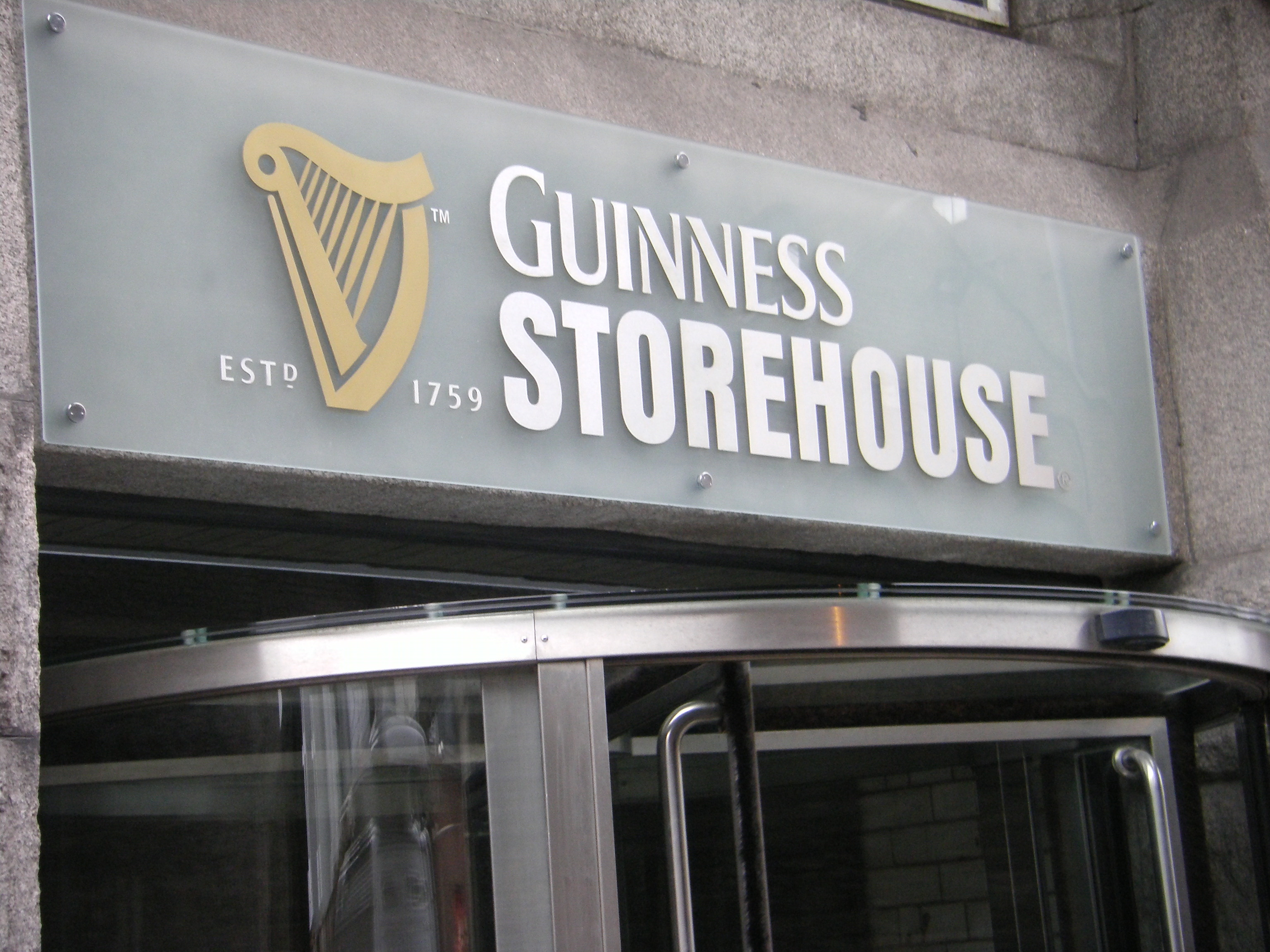 Sign for Guinness Storehouse